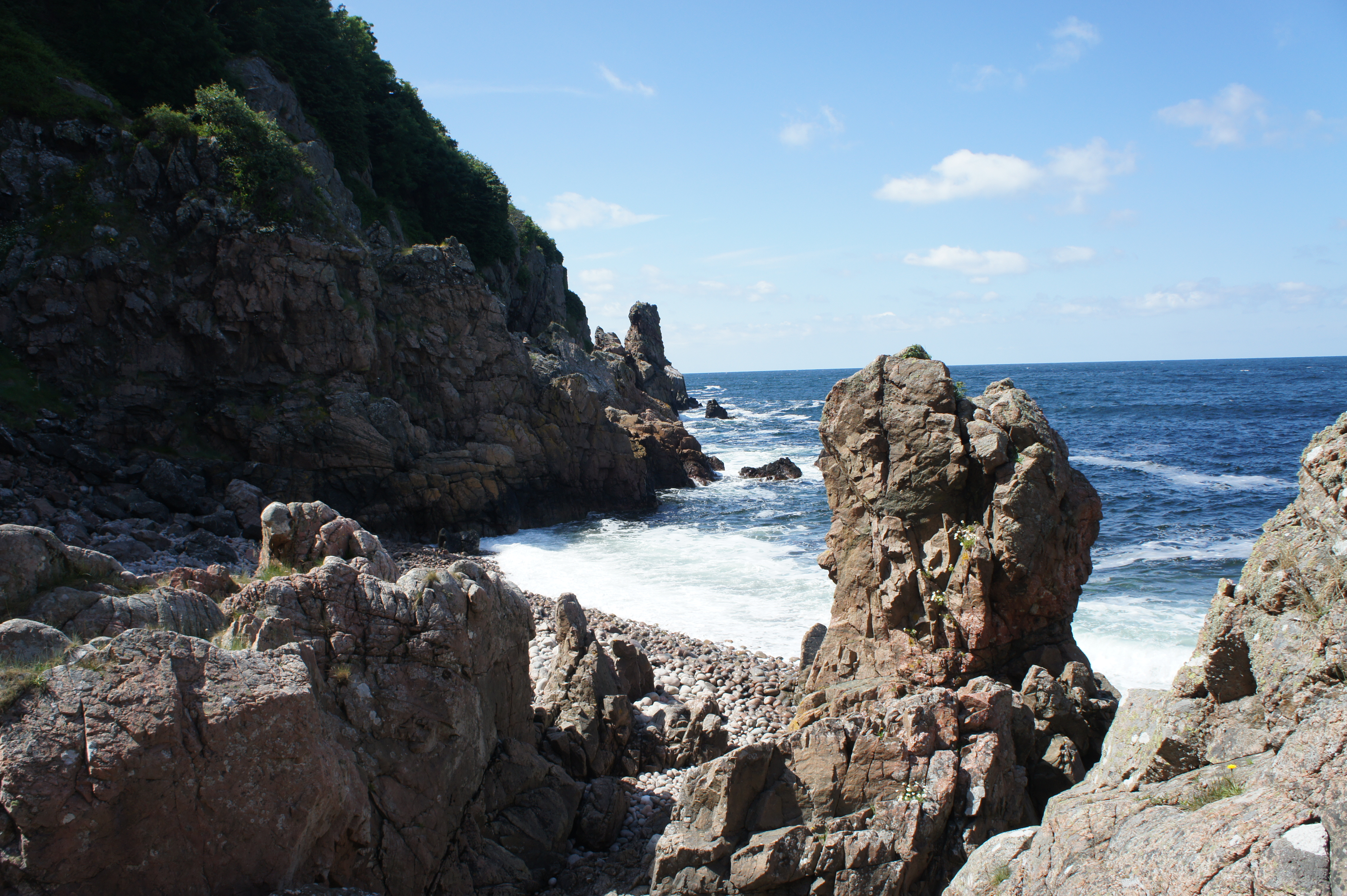 The valley Djupadal at Kullaberg, Sweden